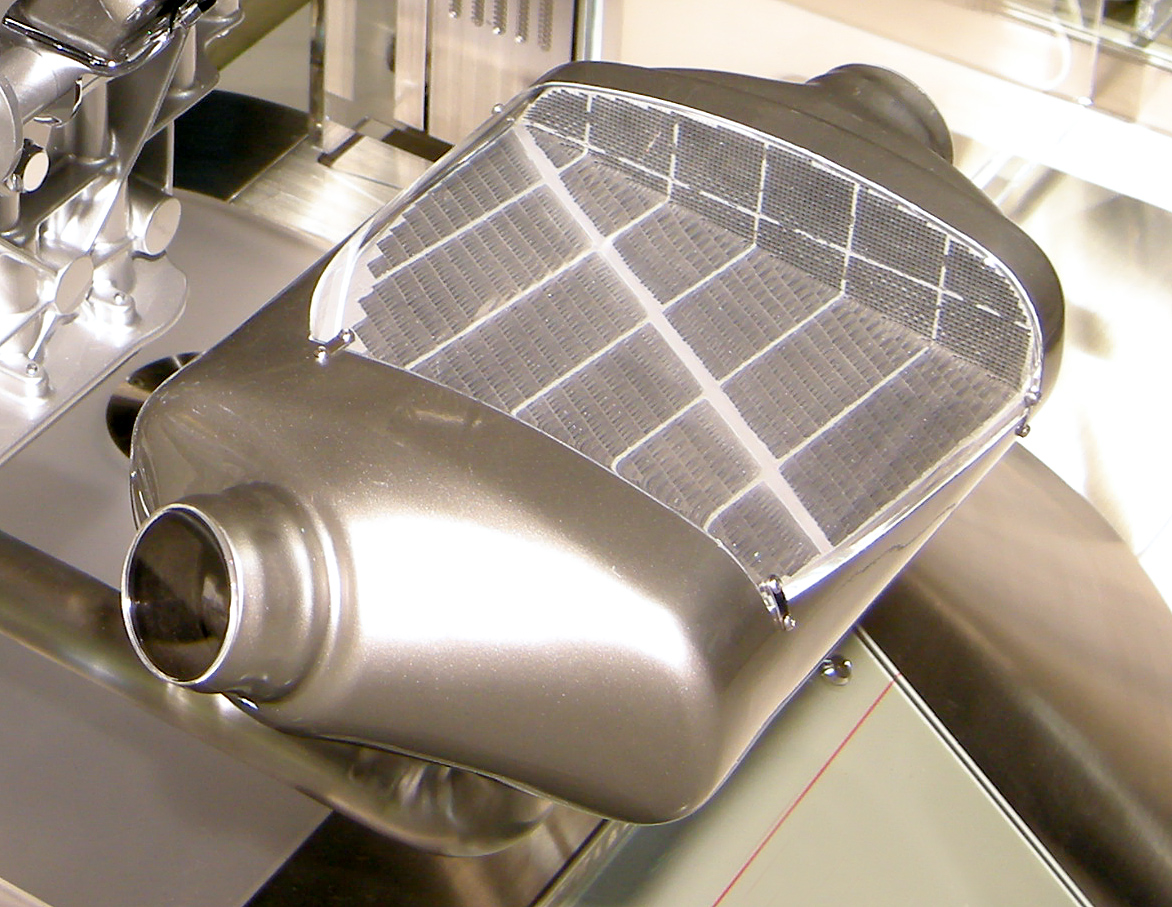 Diesel particulate filter (DPF) installed in Nissan M9R engine